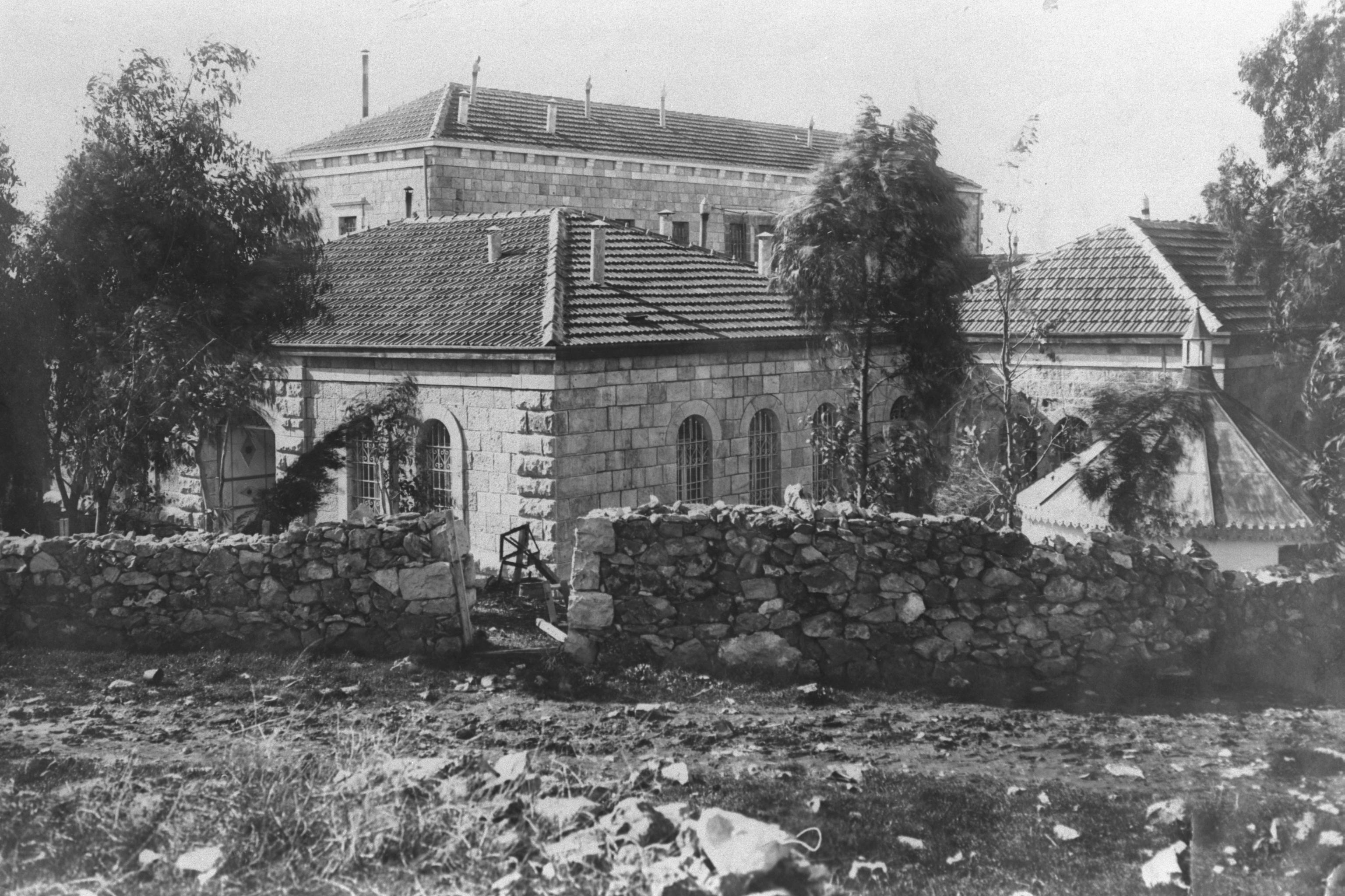 THE OLD AGE HOME ON JAFFA STREET IN JERUSALEM DURING THE OTTOMAN ERA IN THE LAND OF ISRAEL. צילום מושב הזקנים והזקנות ( בית אבות ) ברחוב יפו בירושלים, בתקופת העותומנים בארץ ישראל.